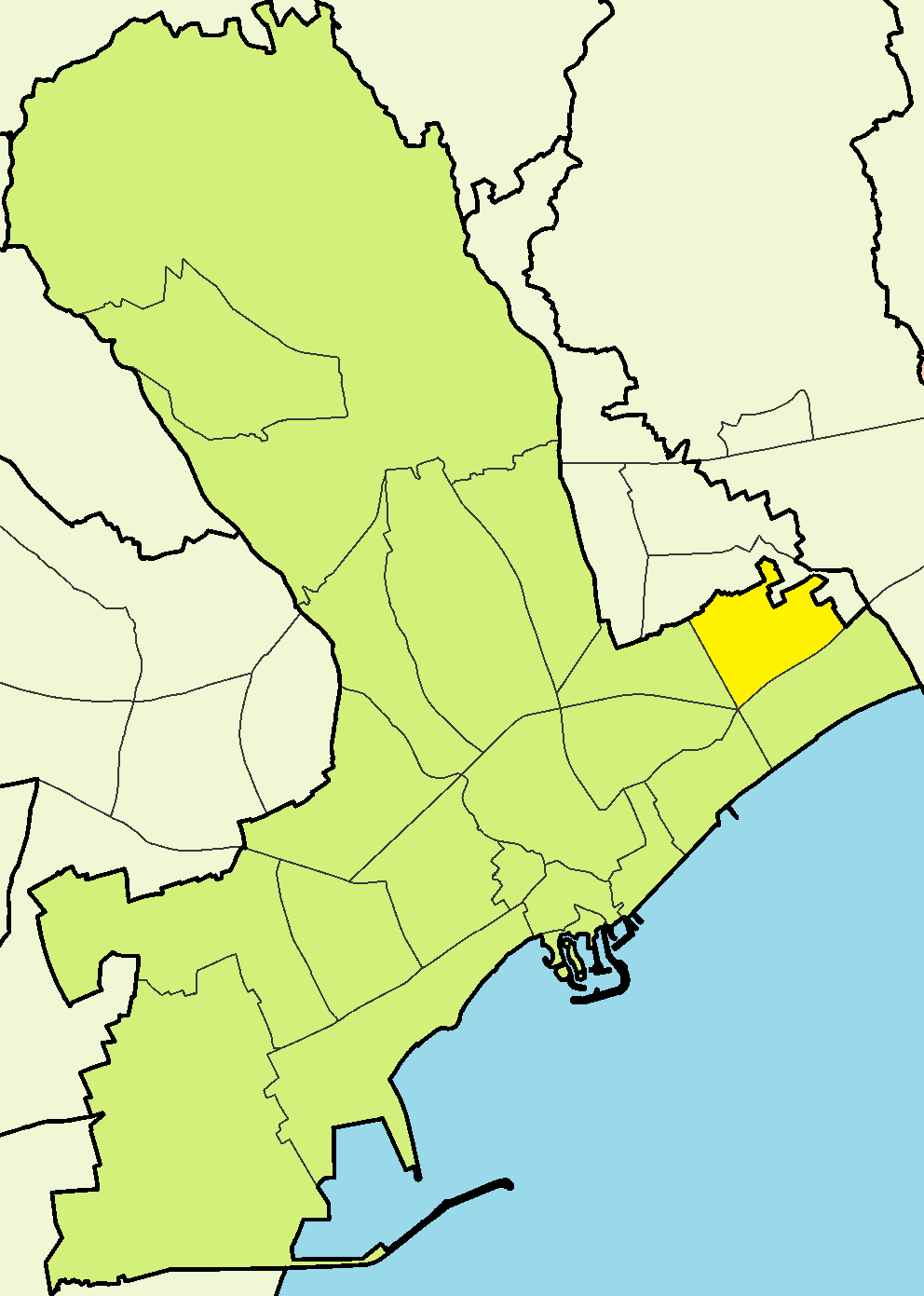 Agios Nikolaos in Limassol Municipality